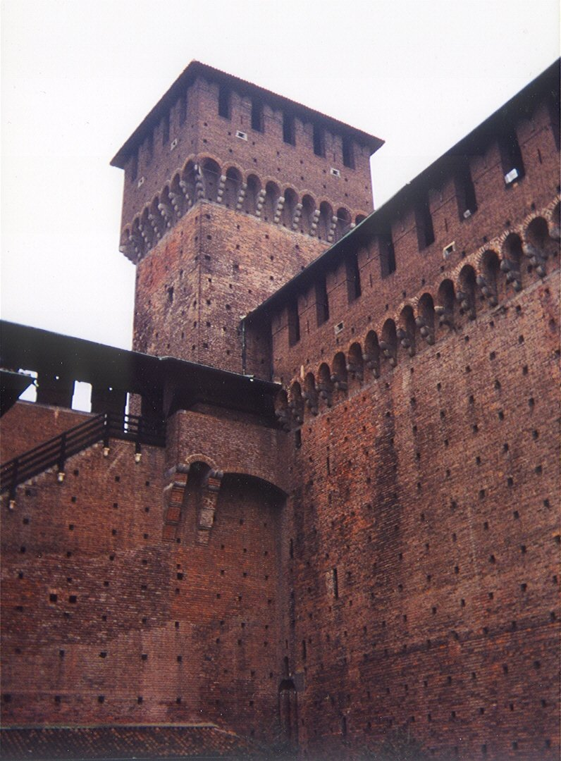 Castello Sforzesco di Milano, Italia. View of exterior wall and tower of Bona di Savoia (1476). Photo by Infrogmation, 1999.